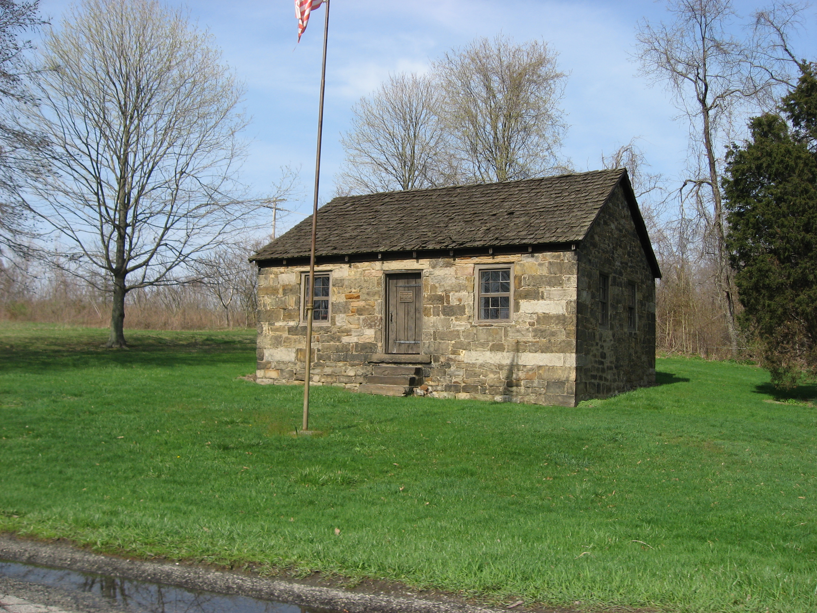 Front and southern side of the Old Concord School, located along Concord Road in Rostraver Township, Westmoreland County, Pennsylvania, United States.